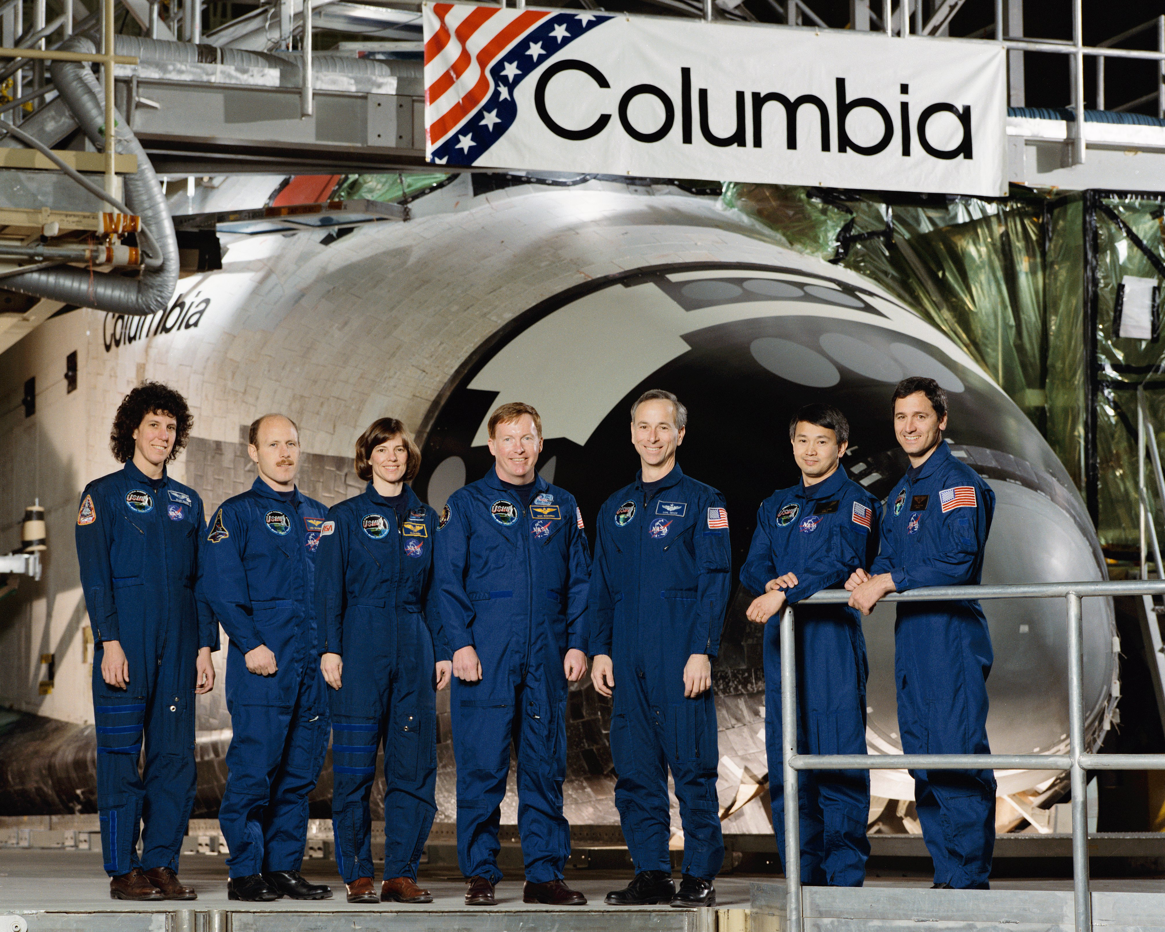 The STS-50 crew portrait includes (from left to right): Ellen S. Baker, mission specialist; Kenneth D. Bowersox, pilot; Bonnie J. Dunbar, payload commander; Richard N. Richards, commander; Carl J. Meade, mission specialist; Eugene H. Trinh, payload specialist; and Lawrence J. DeLucas, payload specialist. Launched aboard the Space Shuttle Columbia on June 25, 1992 at 12:12:23 pm (EDT), the primary payload for the mission was the U.S. Microgravity Laboratory-1 (USML-1) featuring a pressurized Spacelab module.